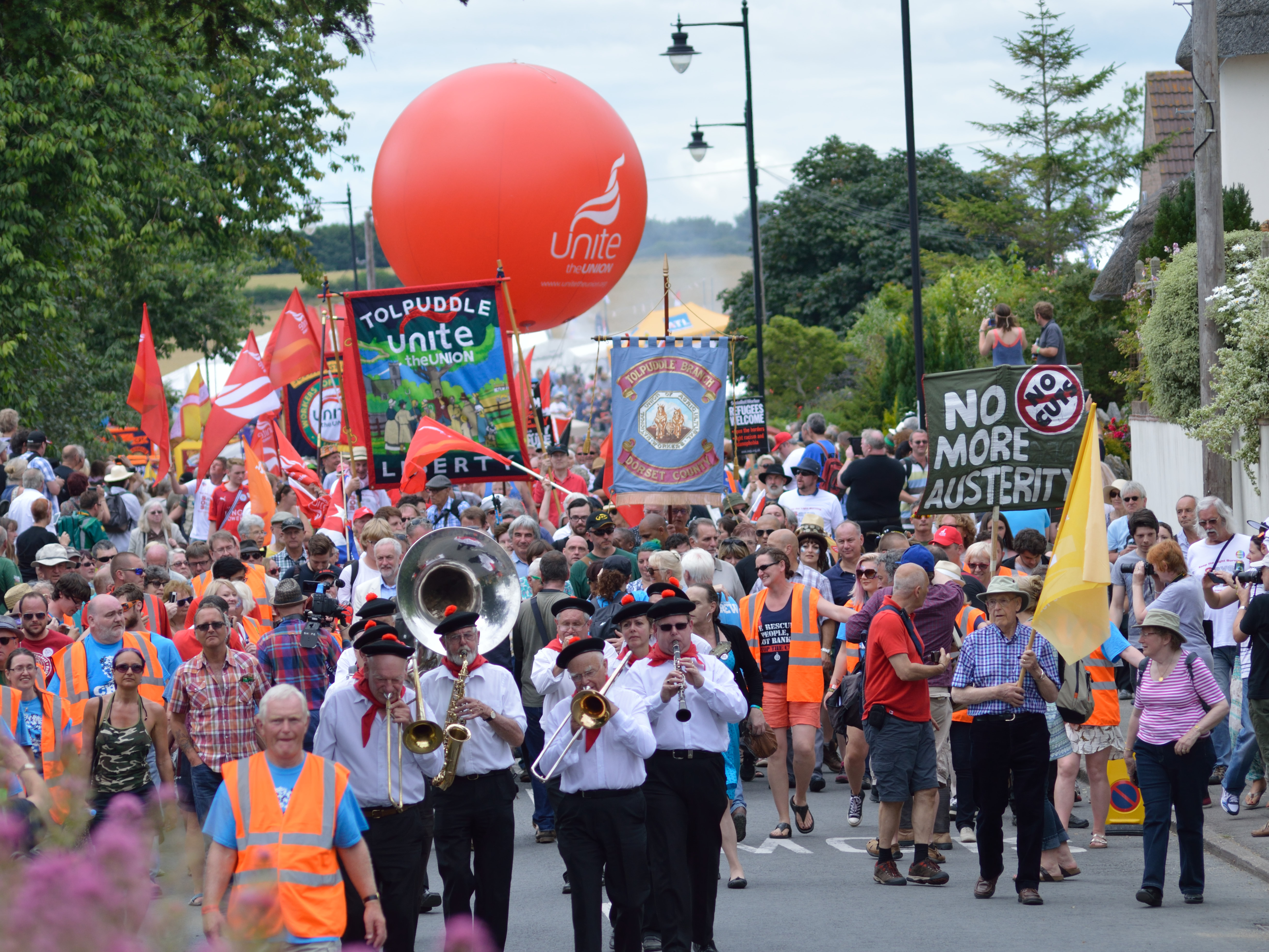 Unite the Union contingent in the 2016 Tolpuddle Martyrs' Rally.